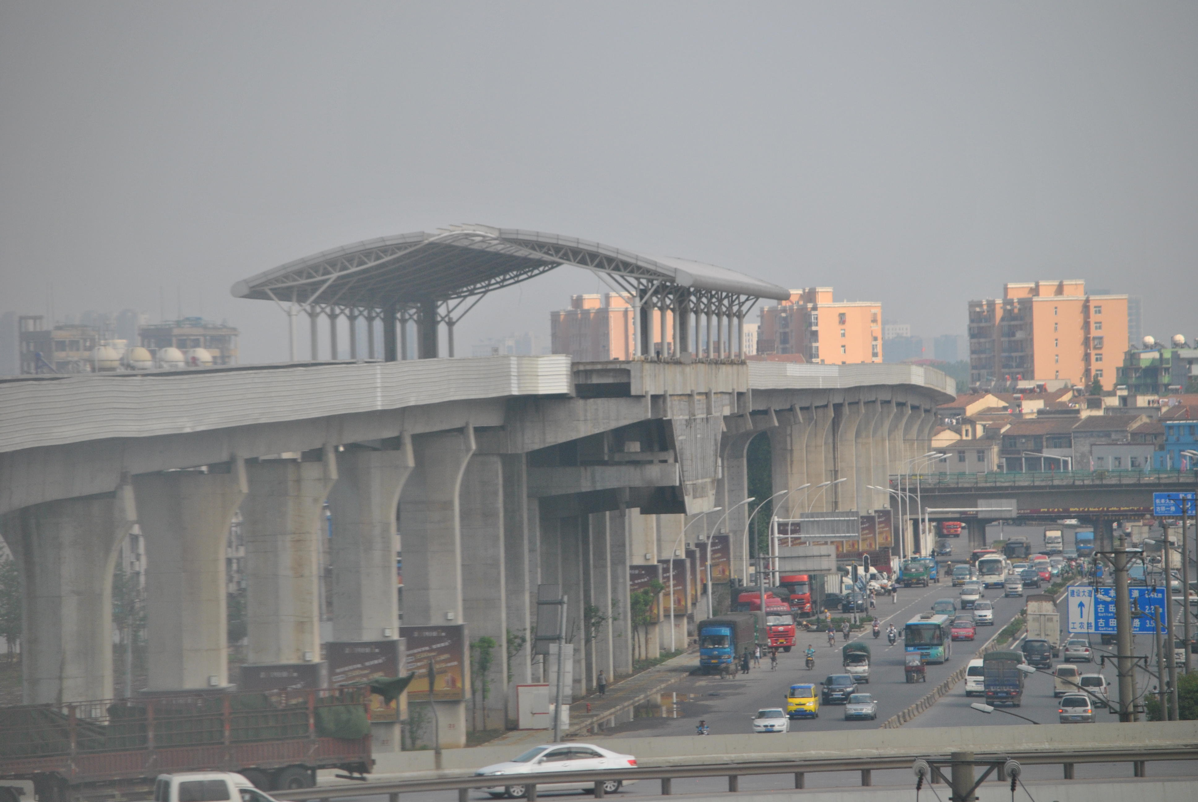 A metro station in Wuhan